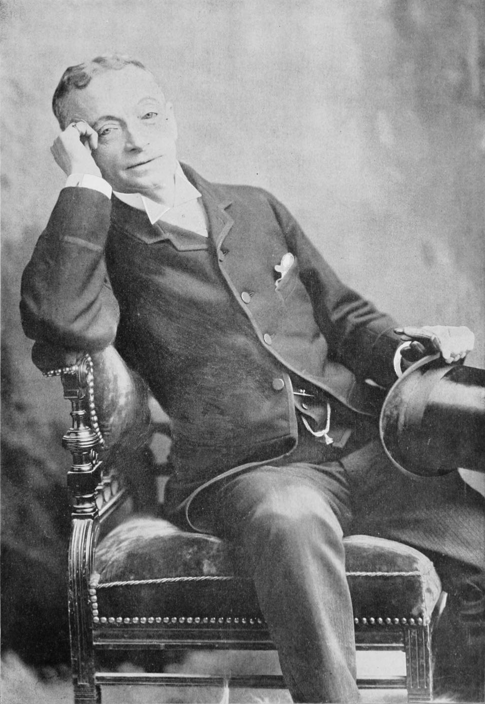 Photograph of American comedian James Lewis in July 16, 1892 issue of The Illustrated American.